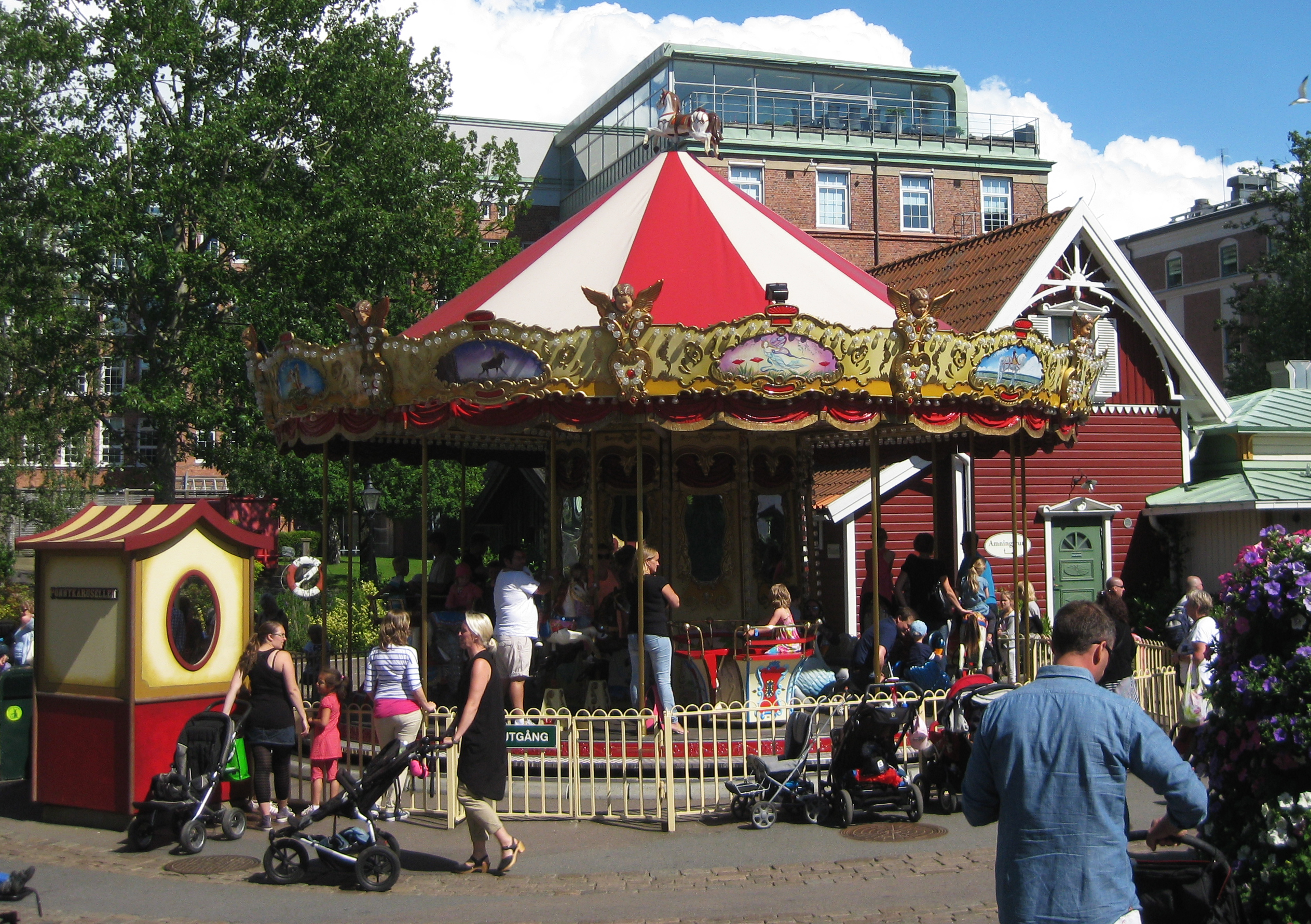 The carousel Ponnykarusellen at Liseberg, Gothenburg, Sweden, 2012.